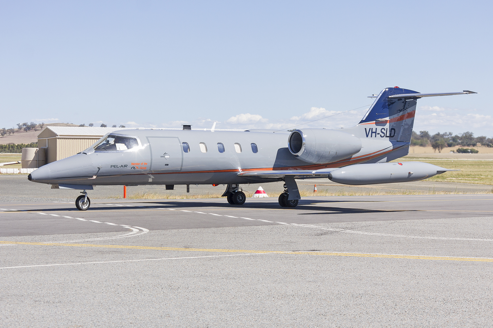 Pel-Air (VH-SLD) Learjet 35A taxiing at Wagga Wagga Airport.